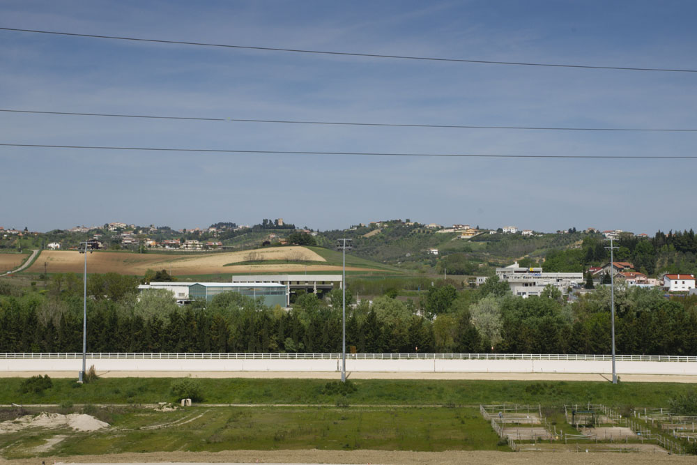 Panorama dall'Ippodromo di San Giovanni Teatino (CH)